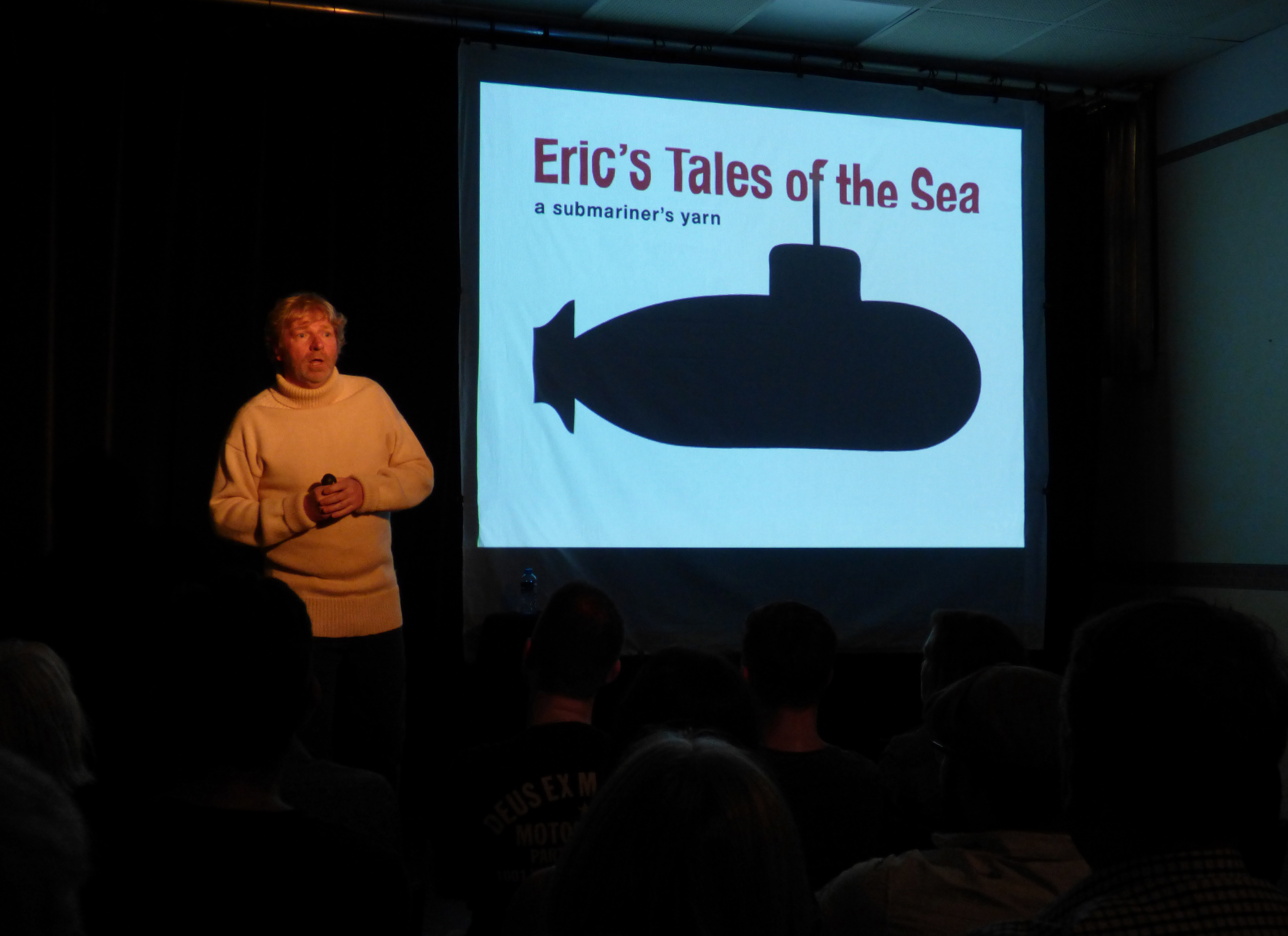 Eric's Tales of the Sea at Adelaide Fringe (2017)